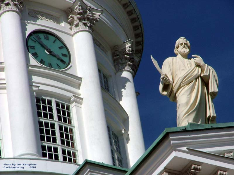 Statue of Apostle Bartholomew at the roof of the Helsinki Cathedral at the centre of Helsinki, Finland, sculpted by August Wredow (1805–1891)